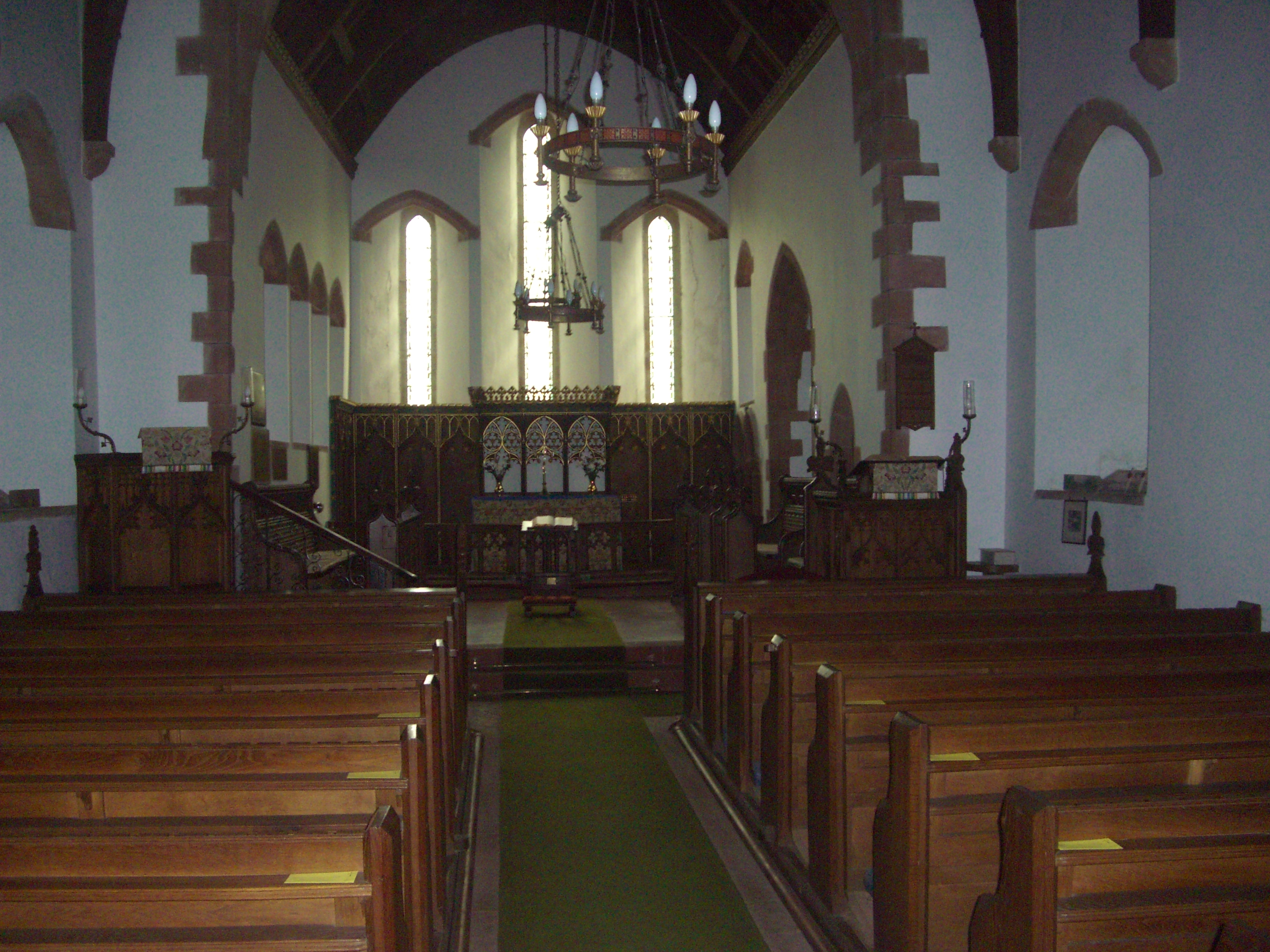 The interior of St Peter's church, Martindale, Cumbria, England